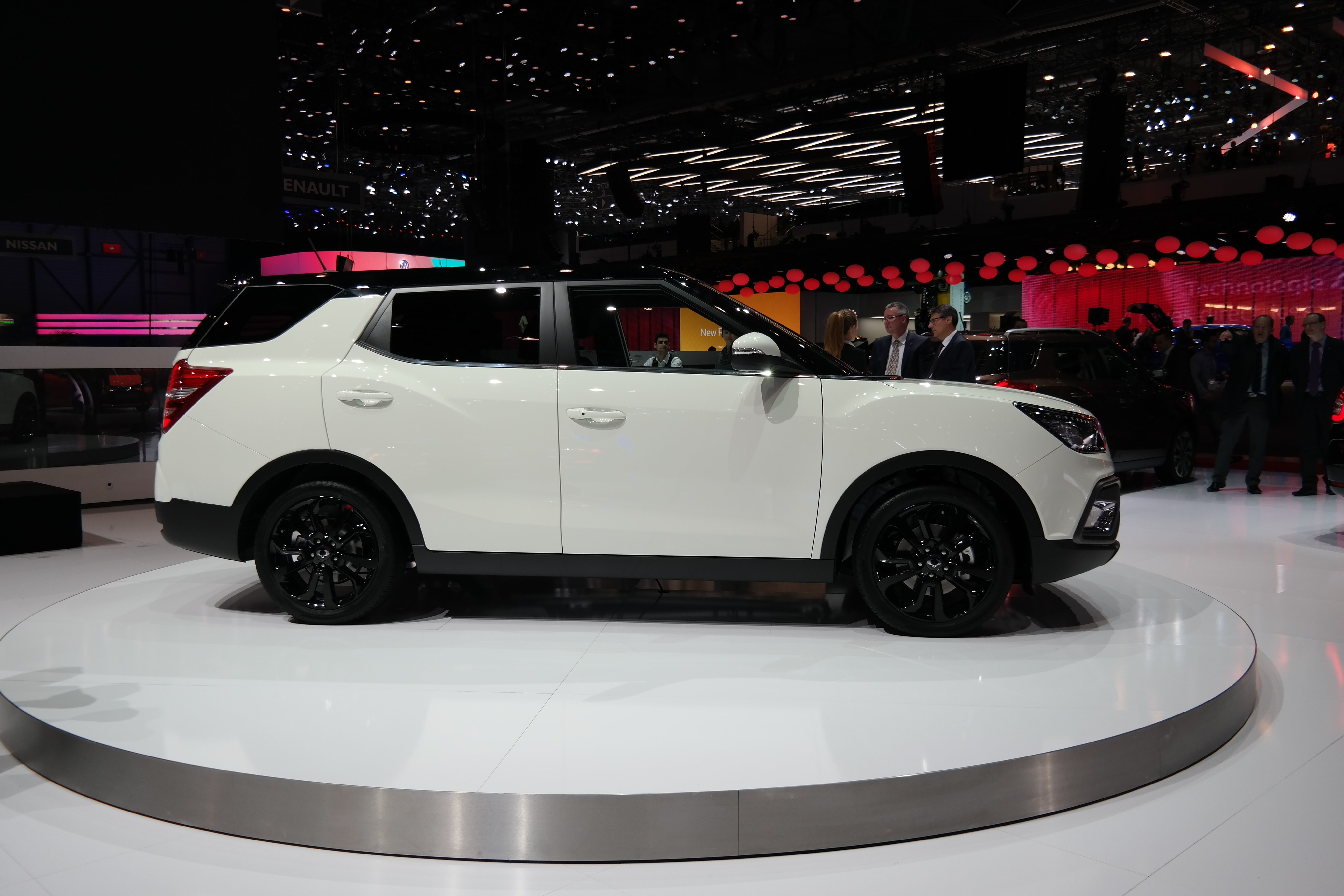 Geneva Motor Show 2016 (photo taken on the first press day)